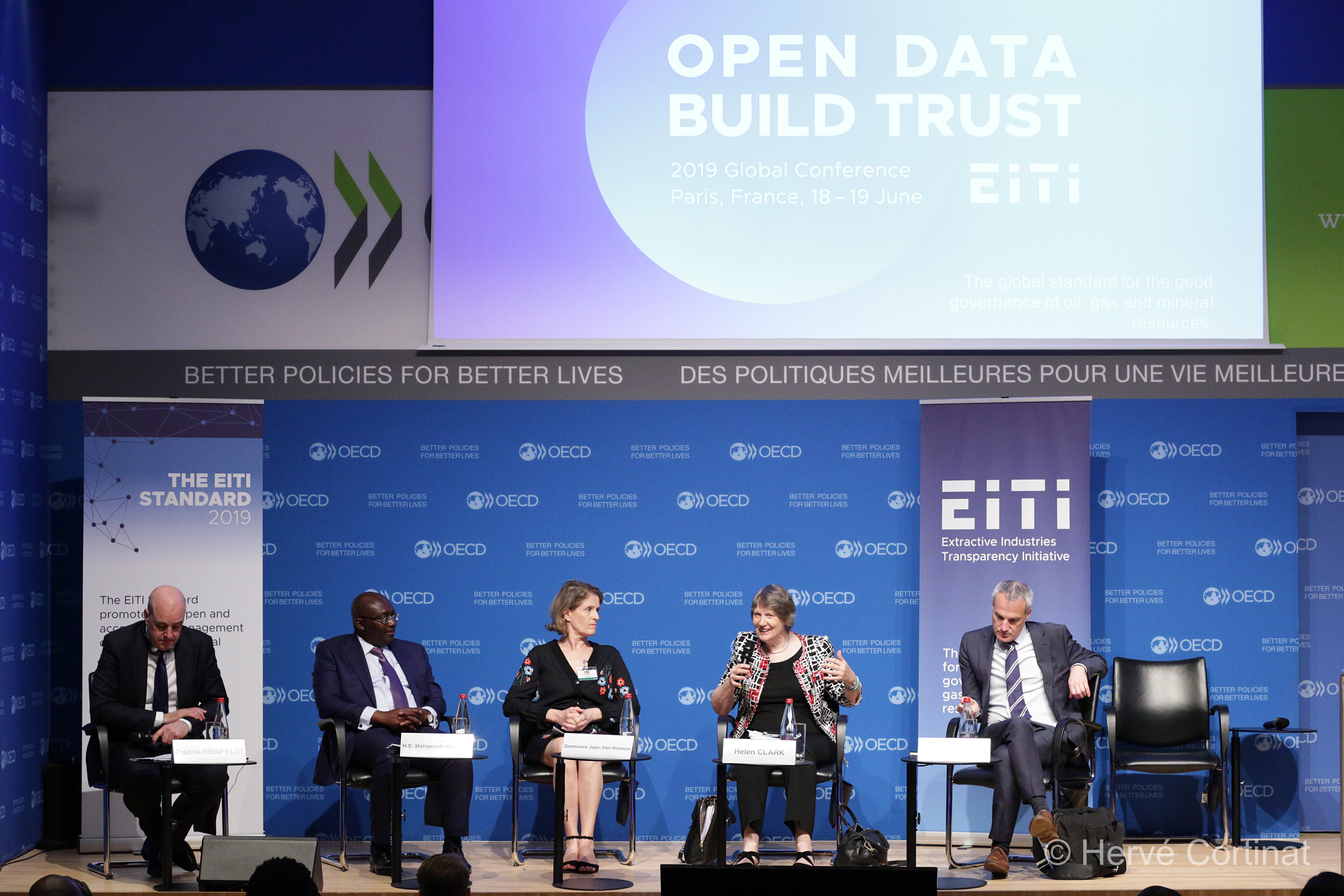 2019 EITI Global Conference. Held in Paris, France on 17- 19 June 2019, hosted by the Government of France.